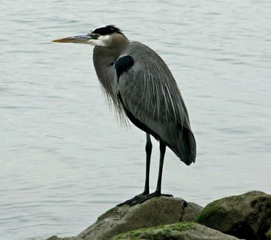 Great Blue Heron at Benicia State Recreation Area